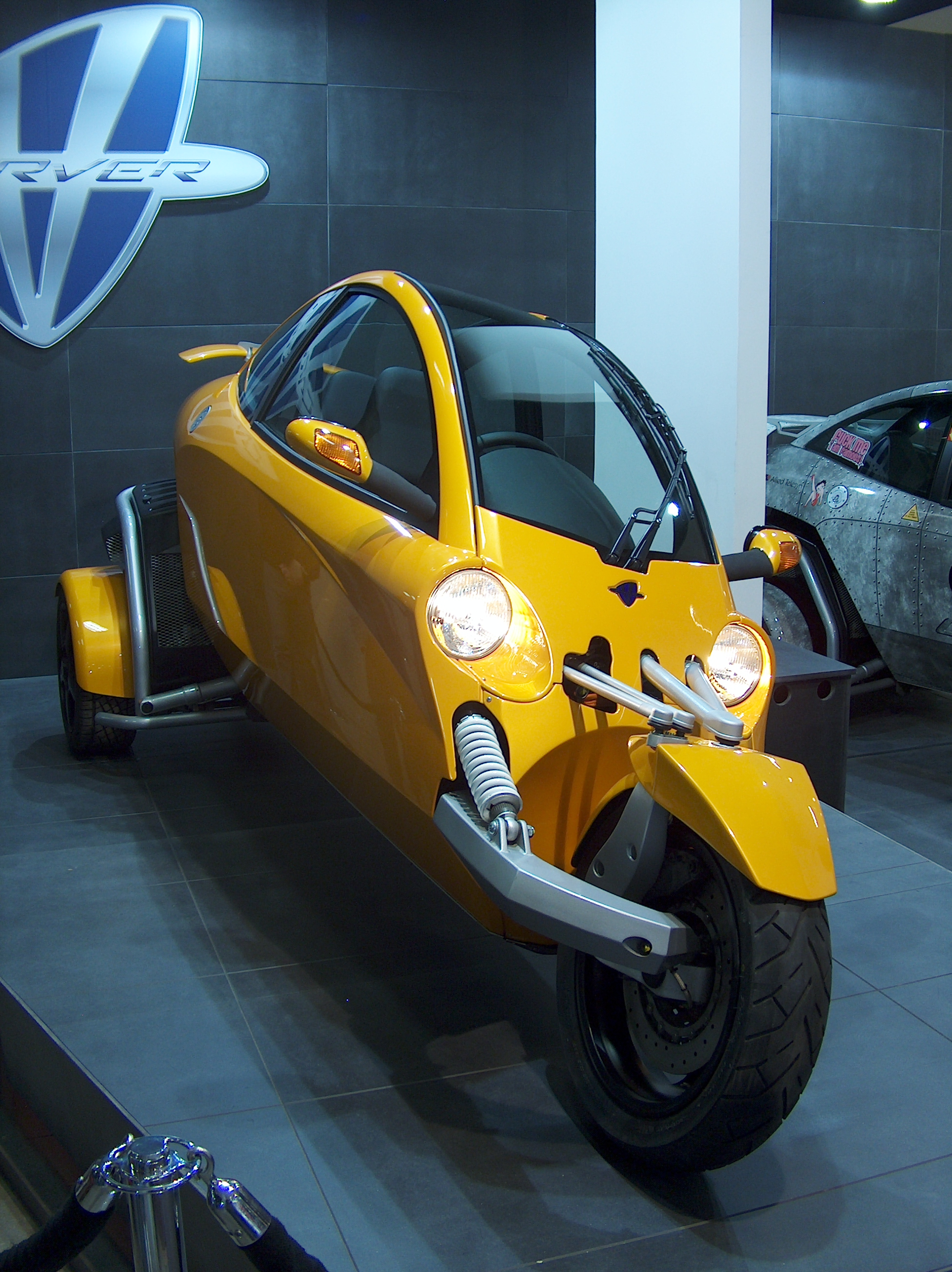 Carver One